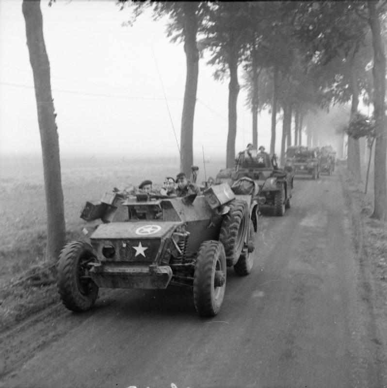 Daimler armoured cars and other recce vehicles on the road near Lille St Hubert (St Huibrechts), 20 September 1944.